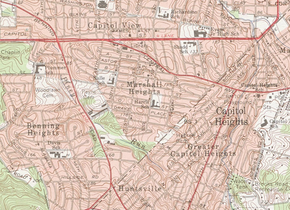 Street and landmark map of Marshall Heights neighborhood of the District of Columbia in 1965.